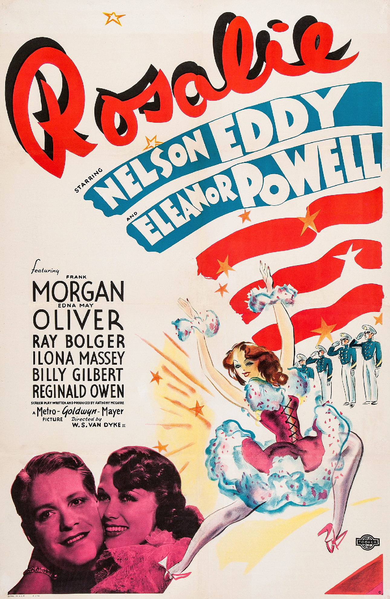 Poster for the 1937 film Rosalie.